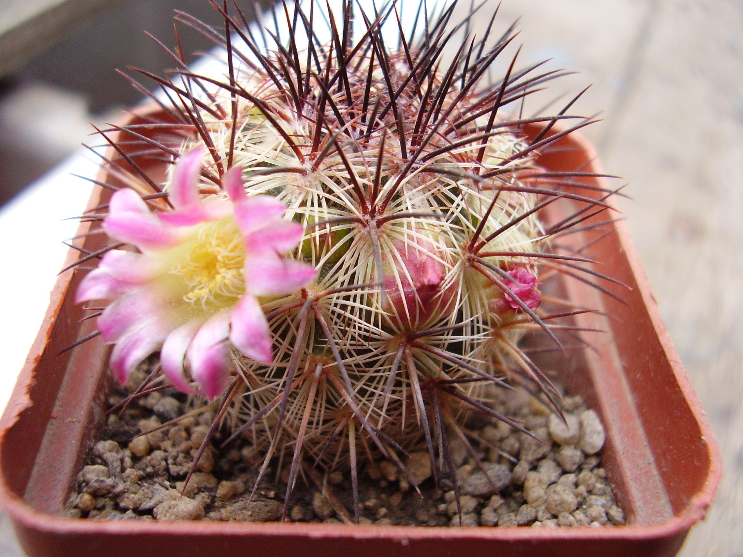 Mammillaria drogeana from collection of Yuriy Shostak, Mykolaiv, Ukraine